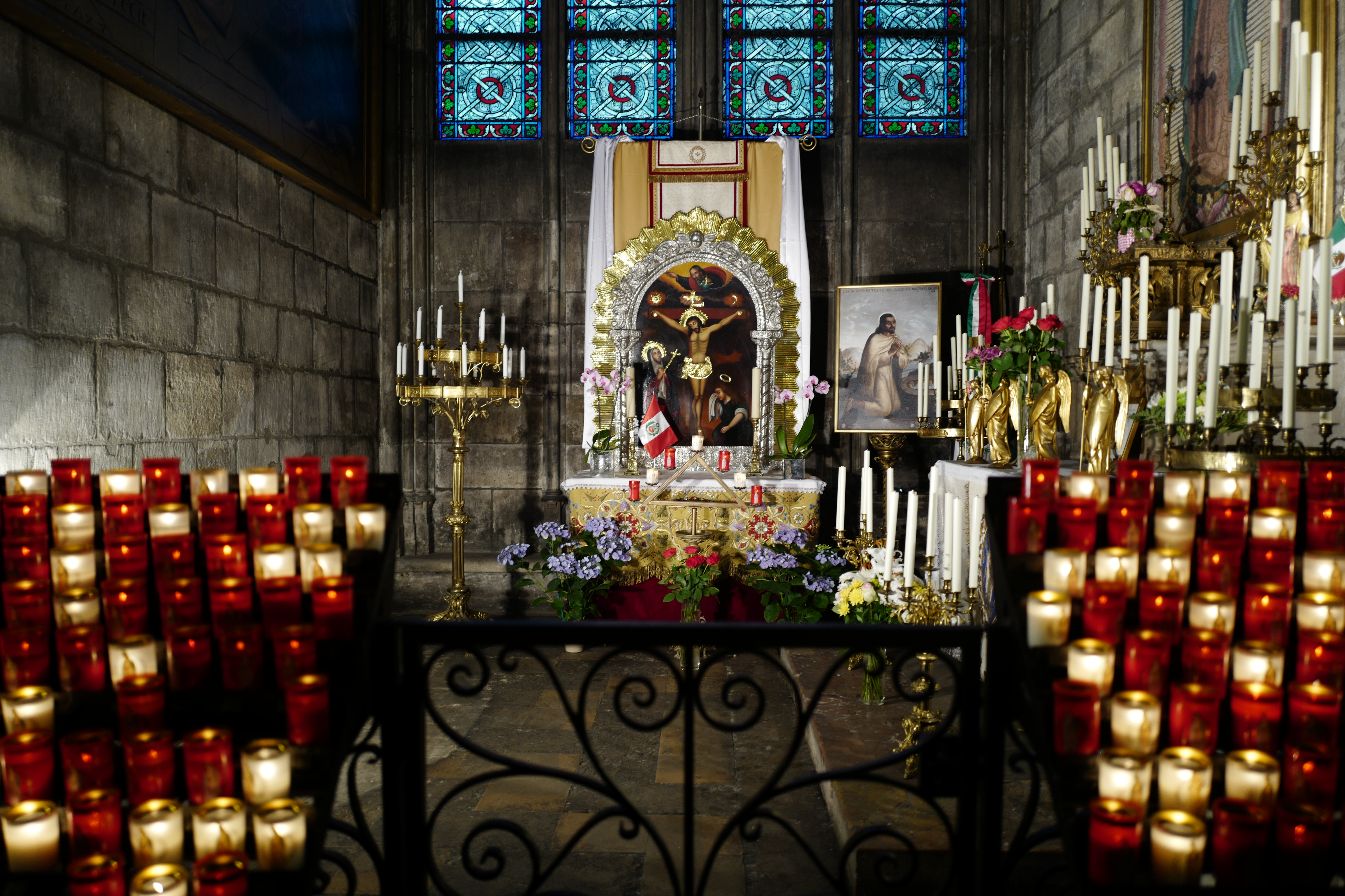 Chapelle Notre-Dame-de-Guadaupe in Notre Dame Cathedral in Paris May 2016